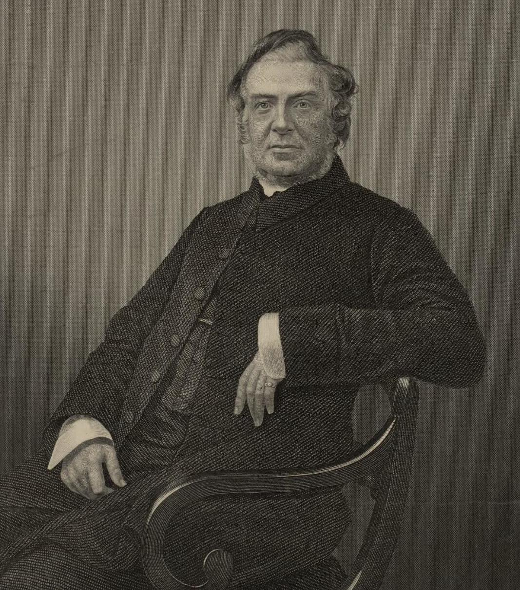 A portrait from the Welsh Portrait Collection at the National Library of Wales. Depicted person: Hugh Stowell – 19th-century hangman